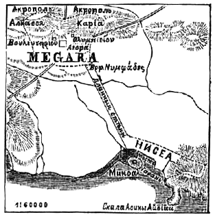 Map of Megara in the Russian edition of Reallexikon des classischen Alterthums (article Megaris)